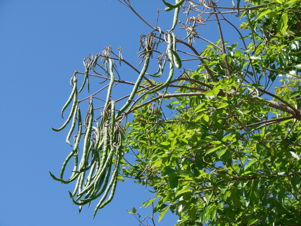 Fruits of Handroanthus serratifolius (A.H. Gentry) S.Grose - Sin: Tabebuia serratifolia (Vahl)G. Nichols - BIGNONIACEAE - SQN 311 - Brasília - Distrito Federal - Brasil.